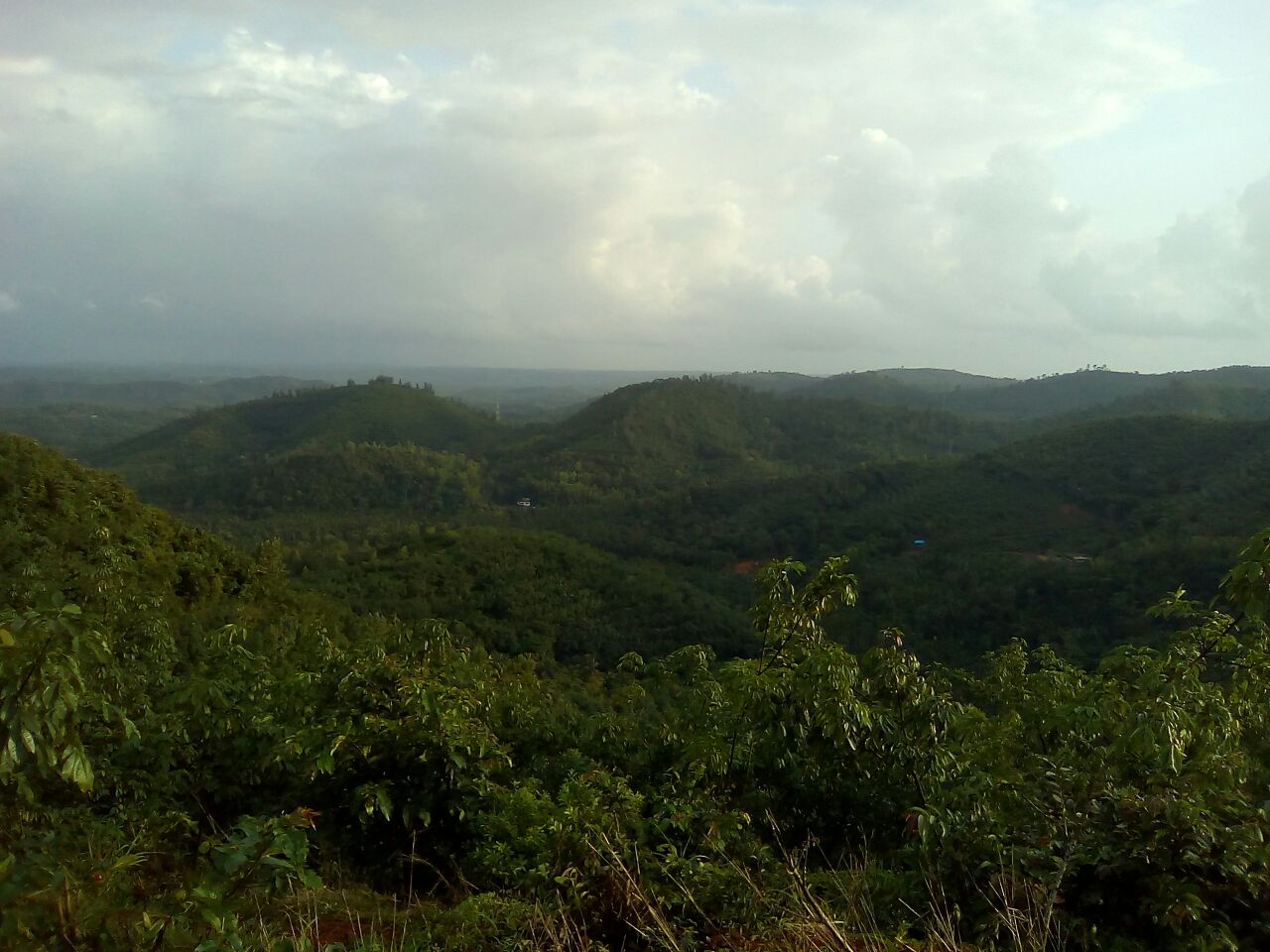 View from Soordelu hill station